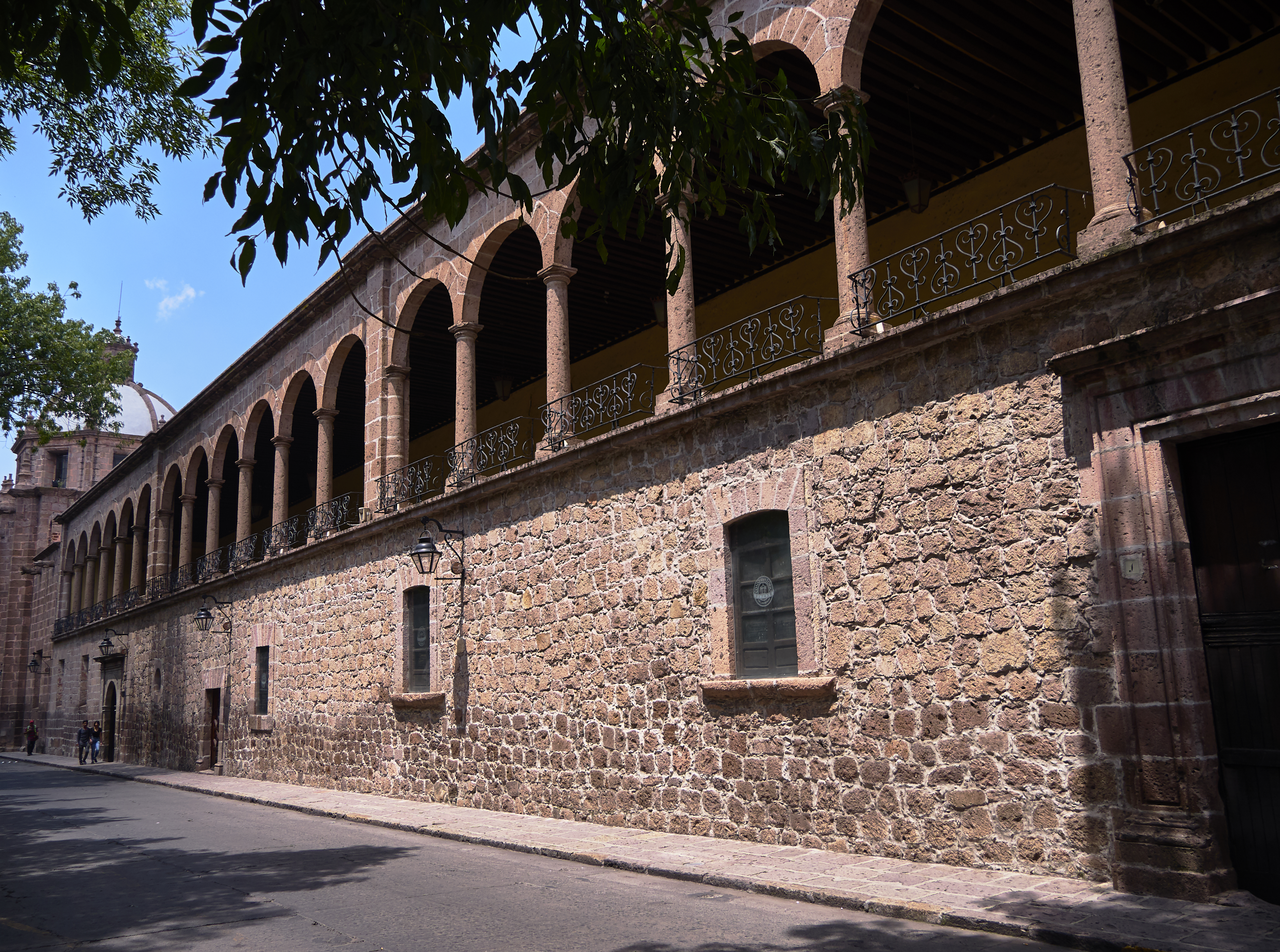 Front-right view of the "Conservatorio de Las Rosas" Music conservatory, Morelia, Michoacan, Mexico